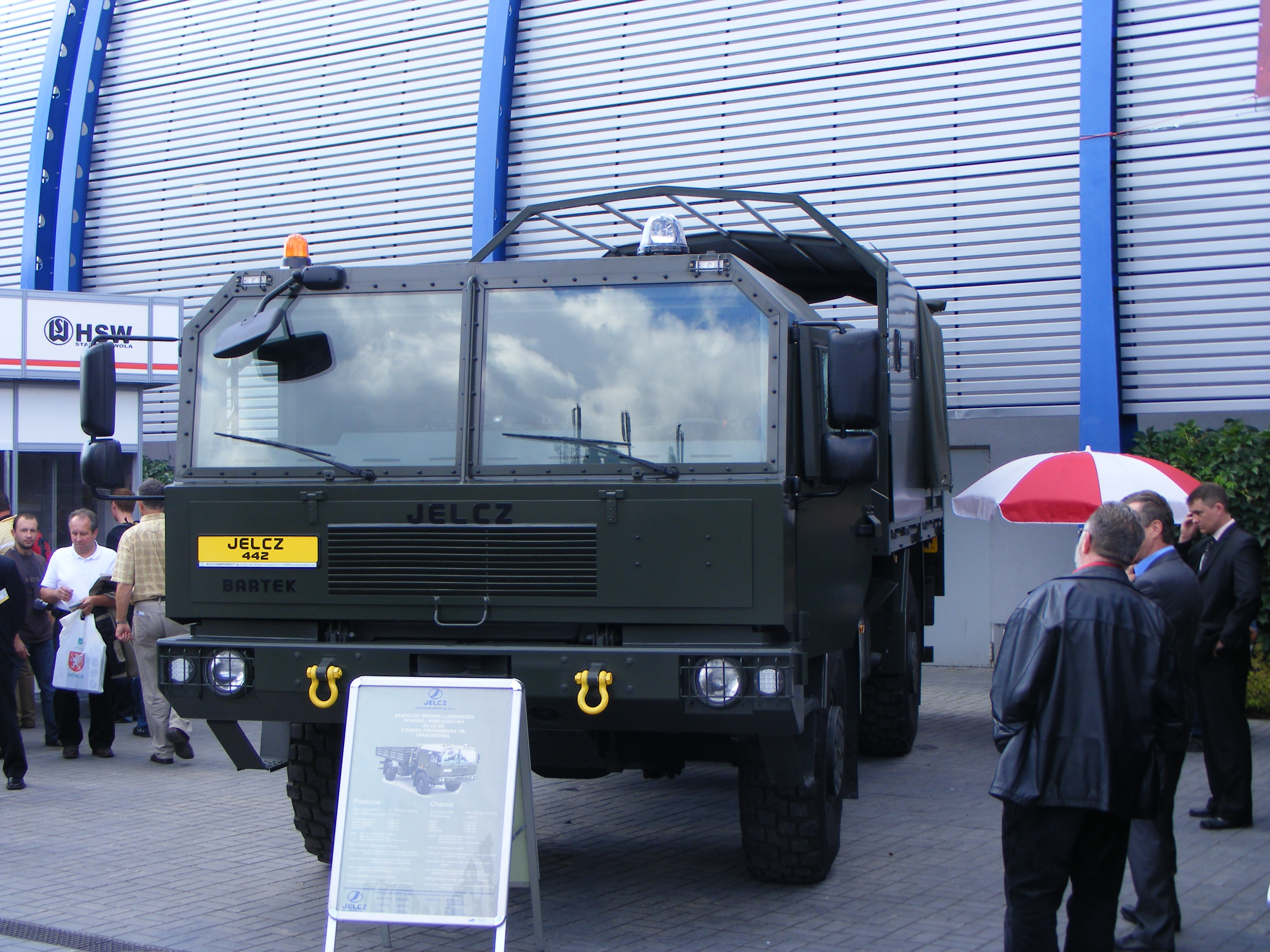 Polish Jelcz 442 shown at MSPO 2008.